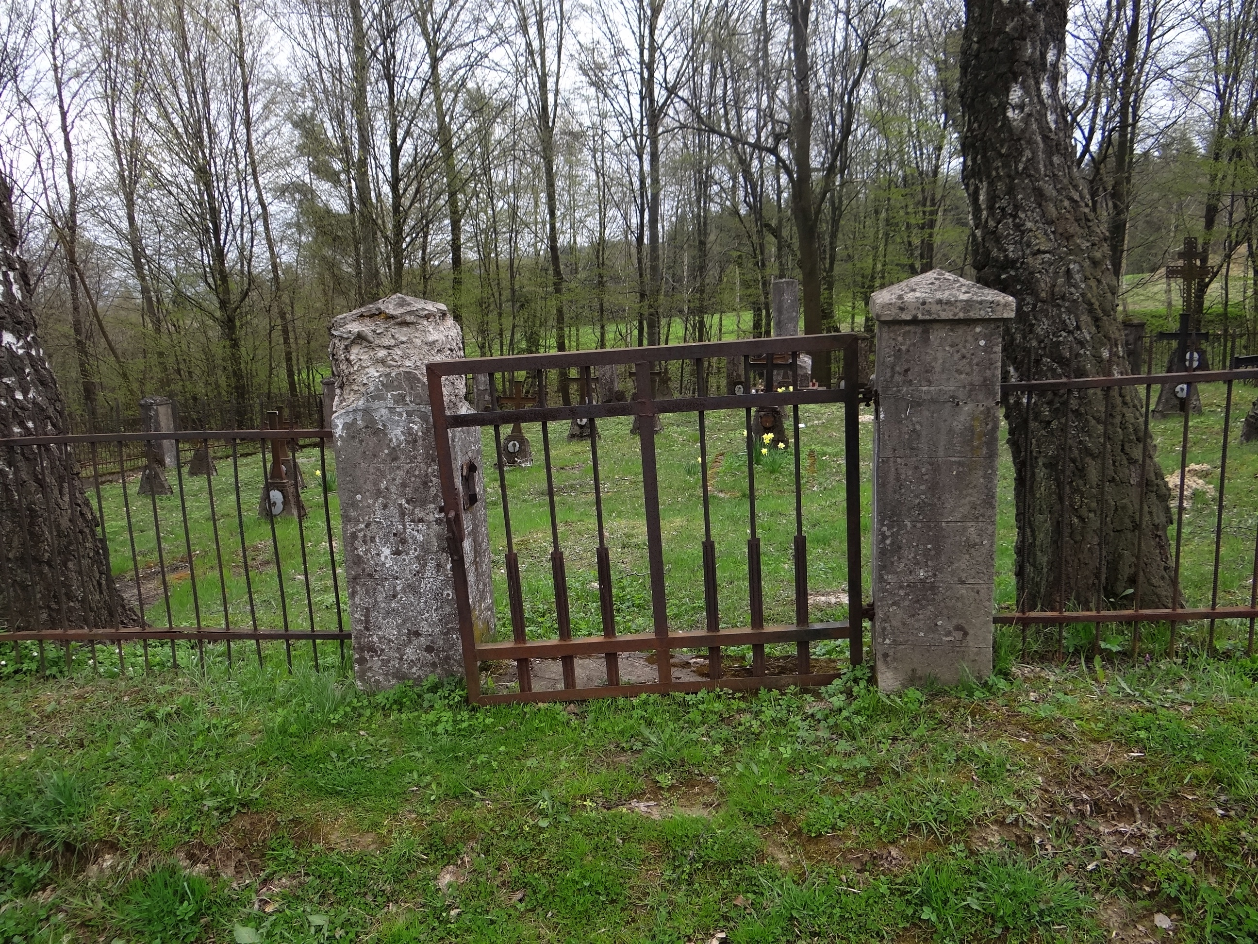 World War I Cemetery nr 149 - Chojnik